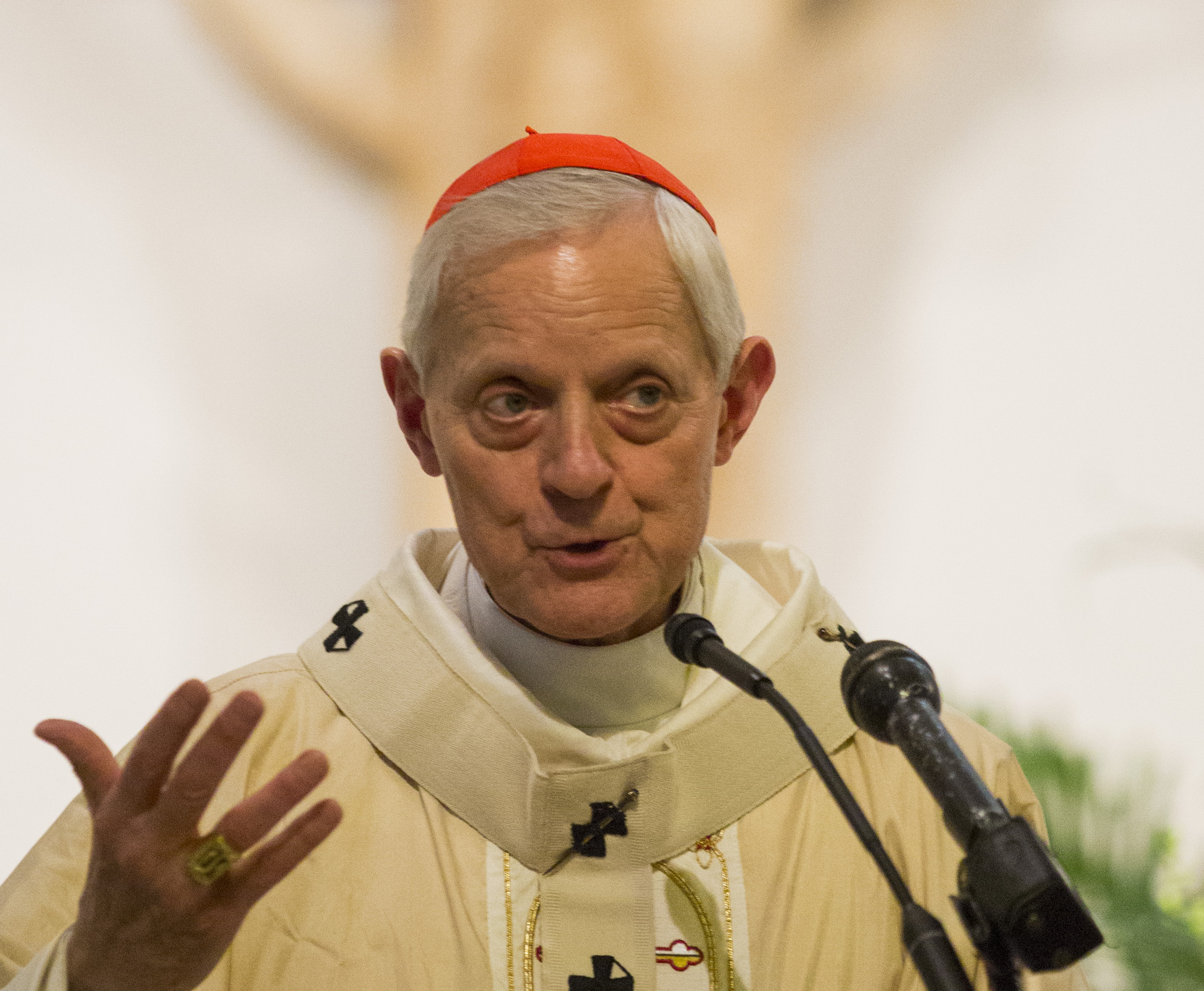 These images reflect the Blue Mass that marks the beginning of National Police Week in the Nation's Capital and Customs and Border Protection's involvement in paying tribute to Fallen Officers. The Archbishop of Washington D.C., Cardinal Donald William Wuerl, presides over the event annually. Photo by James Tourtellotte.